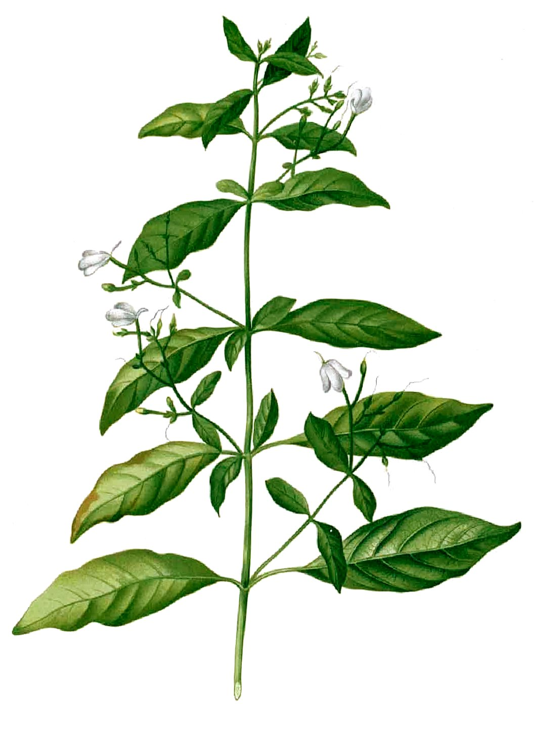 Plate from book